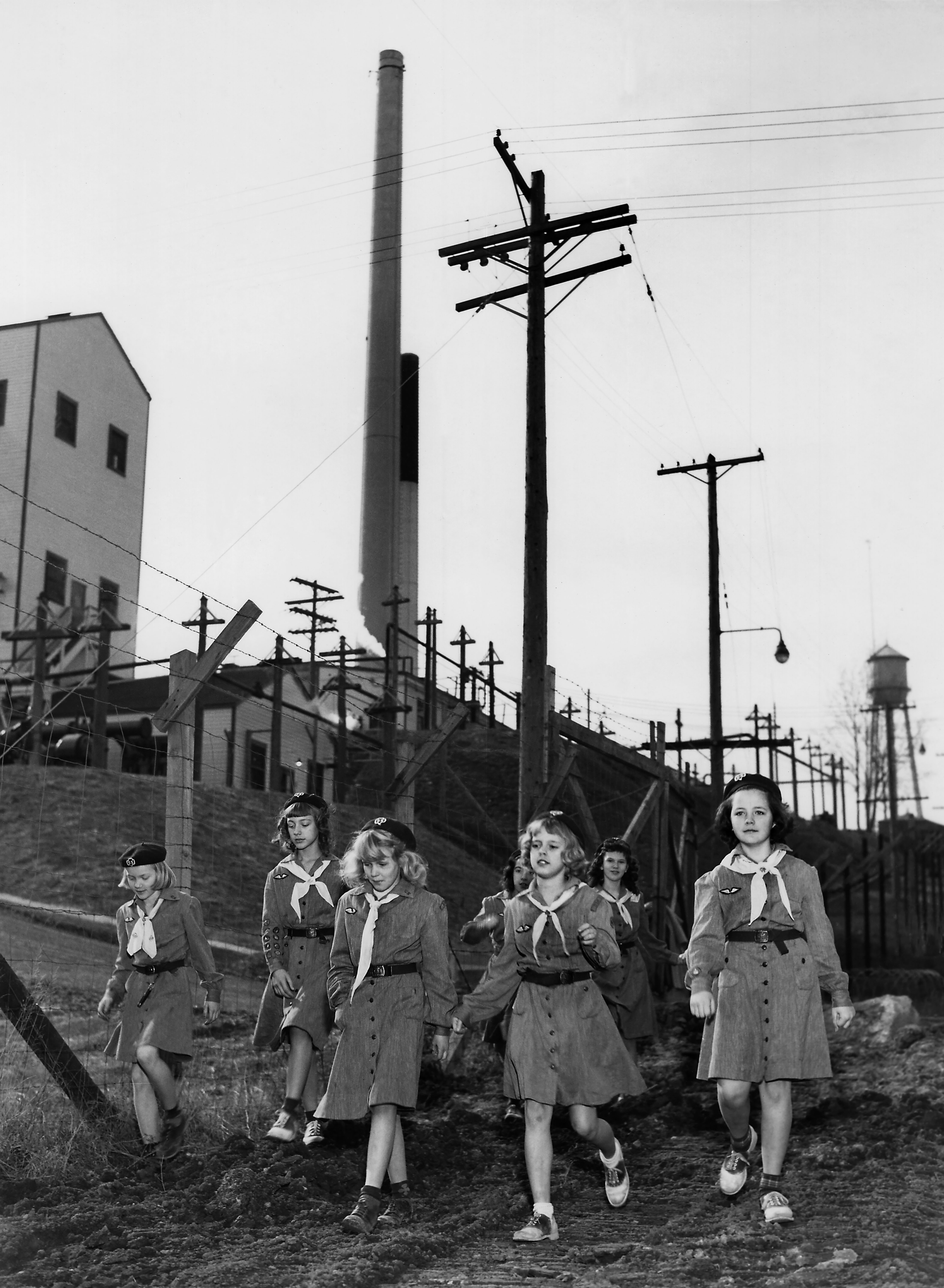 6994-1 DOE photo Ed Westcott 6-9-1951 Oak Ridge Tennessee